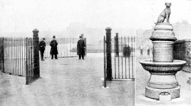 The spot on which the Brown Dog statue had stood in Battersea, London; photograph taken the morning it disappeared. See Brown Dog affair.